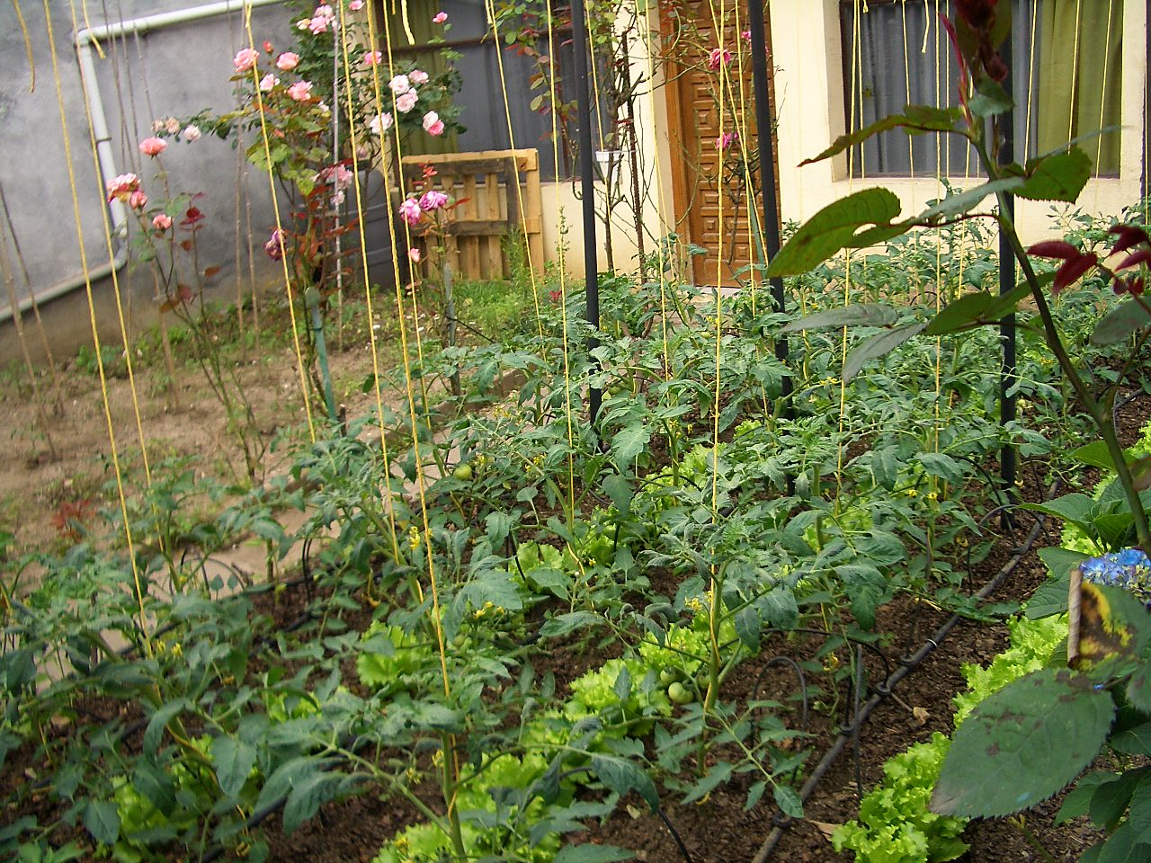 An apartment building with a small flower and vegetable garden in front of it in central Aretxabaleta